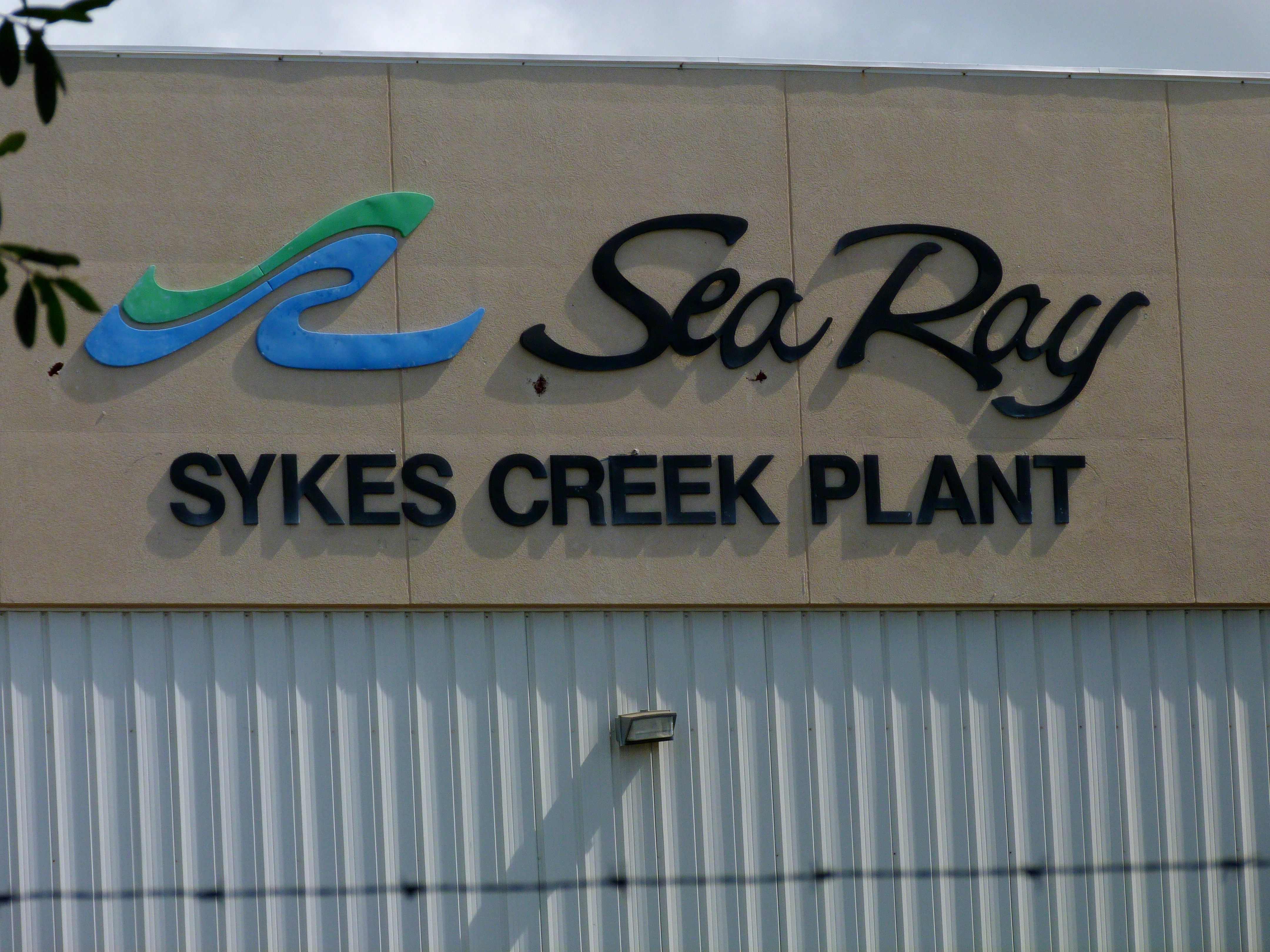 Sea Ray manufacturing plant in Merritt Island FL